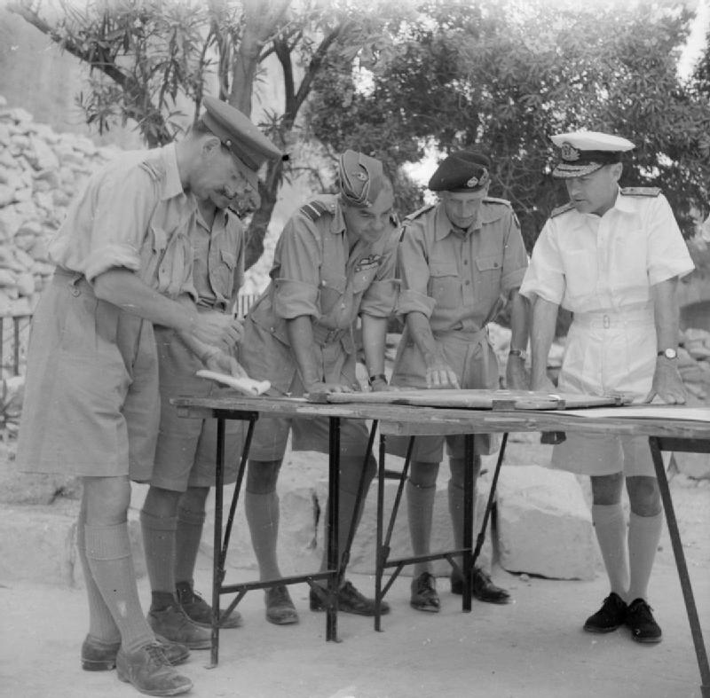 The Campaign in Sicily 1943 Personalities: The British commanders of Operation Husky planning their operations in Malta, left to right: The Chief of Staff to General Montgomery, Major General F W de Guingand; Senior Air Staff Officer to Air Vice Marshal Broadhurst, Air Commodore C B R Pelly; Air Officer Commanding Desert Air Force, Air Vice Marshal H Broadhurst; The Commander of the Eighth Army, General Montgomery and Naval Commanding Officer, Eastern Task Force, Admiral Sir Bertram Ramsay.